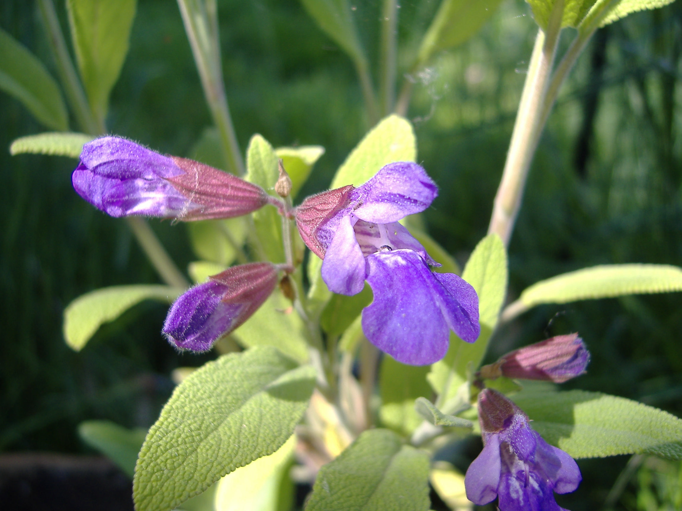 Common Sage, Salvia officinalis